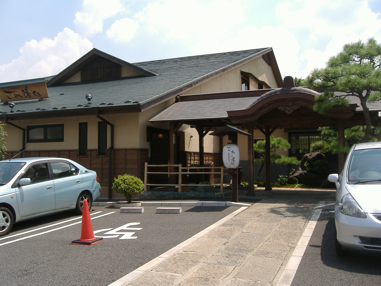 Super sento"Saya no yudokoro"(Tokyo, Japan)